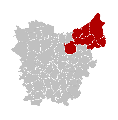 Map of the province East-Flanders, showing Sint-Niklaas arrondissement in red.